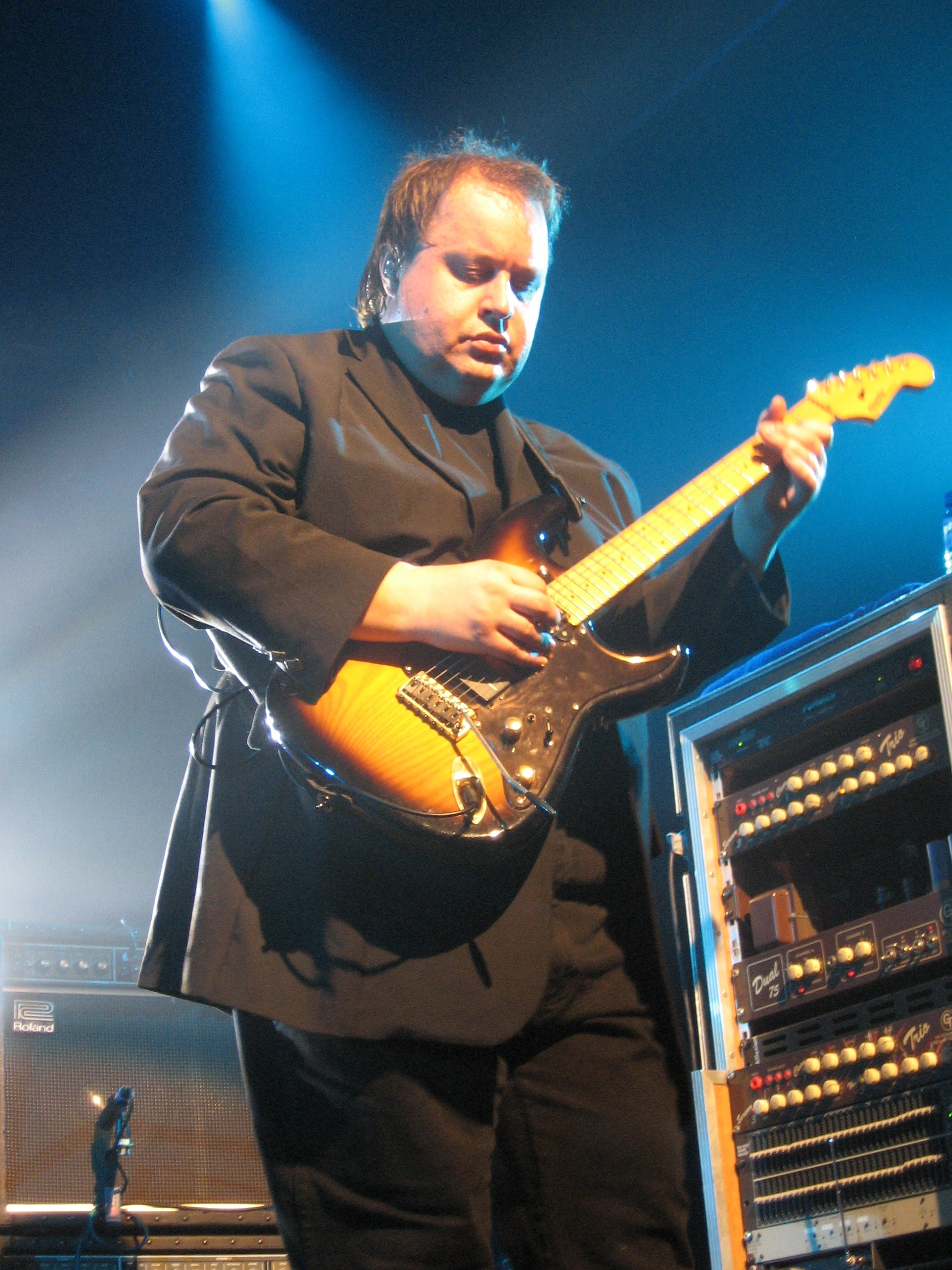 Picture taken during Somewhere Else Tour 2007, in Hardenberg on May, 02nd